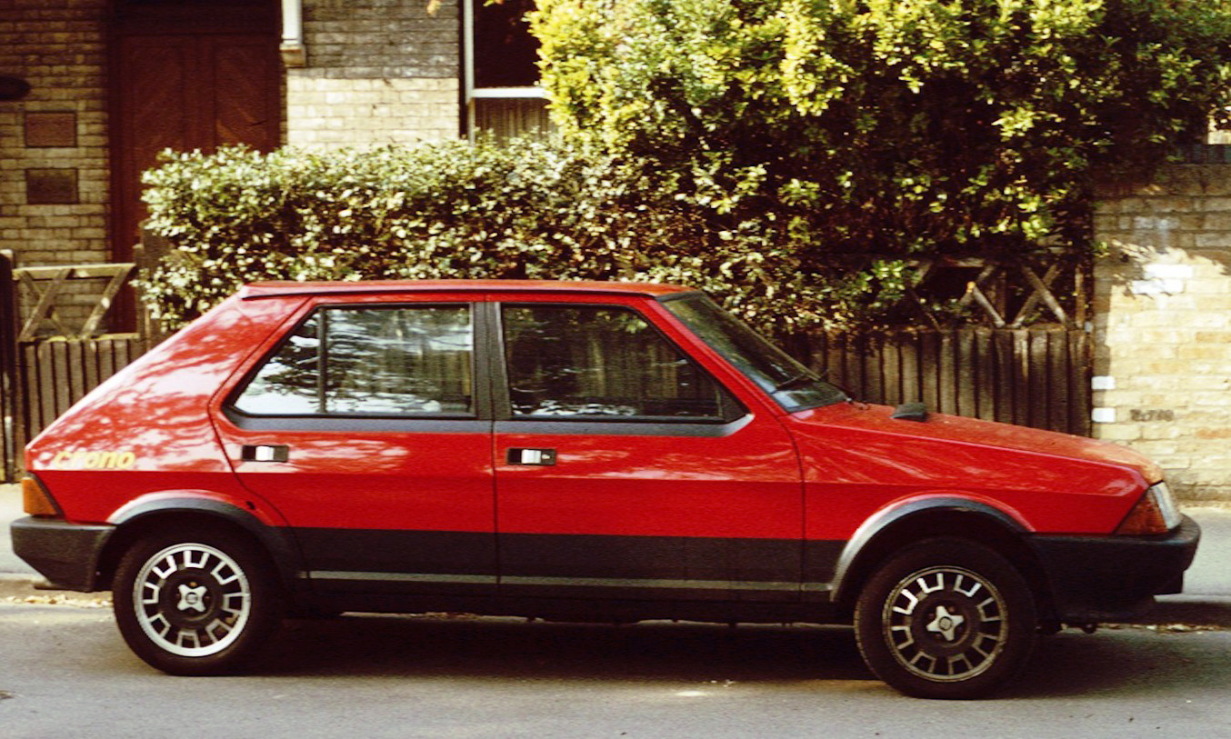 Seat Ronda in profile